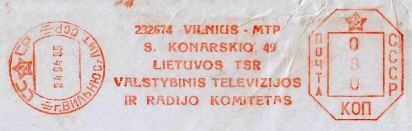 Postage meter of State Television and Radio Committee of the Lithuanian SSR, 24 April 1989.